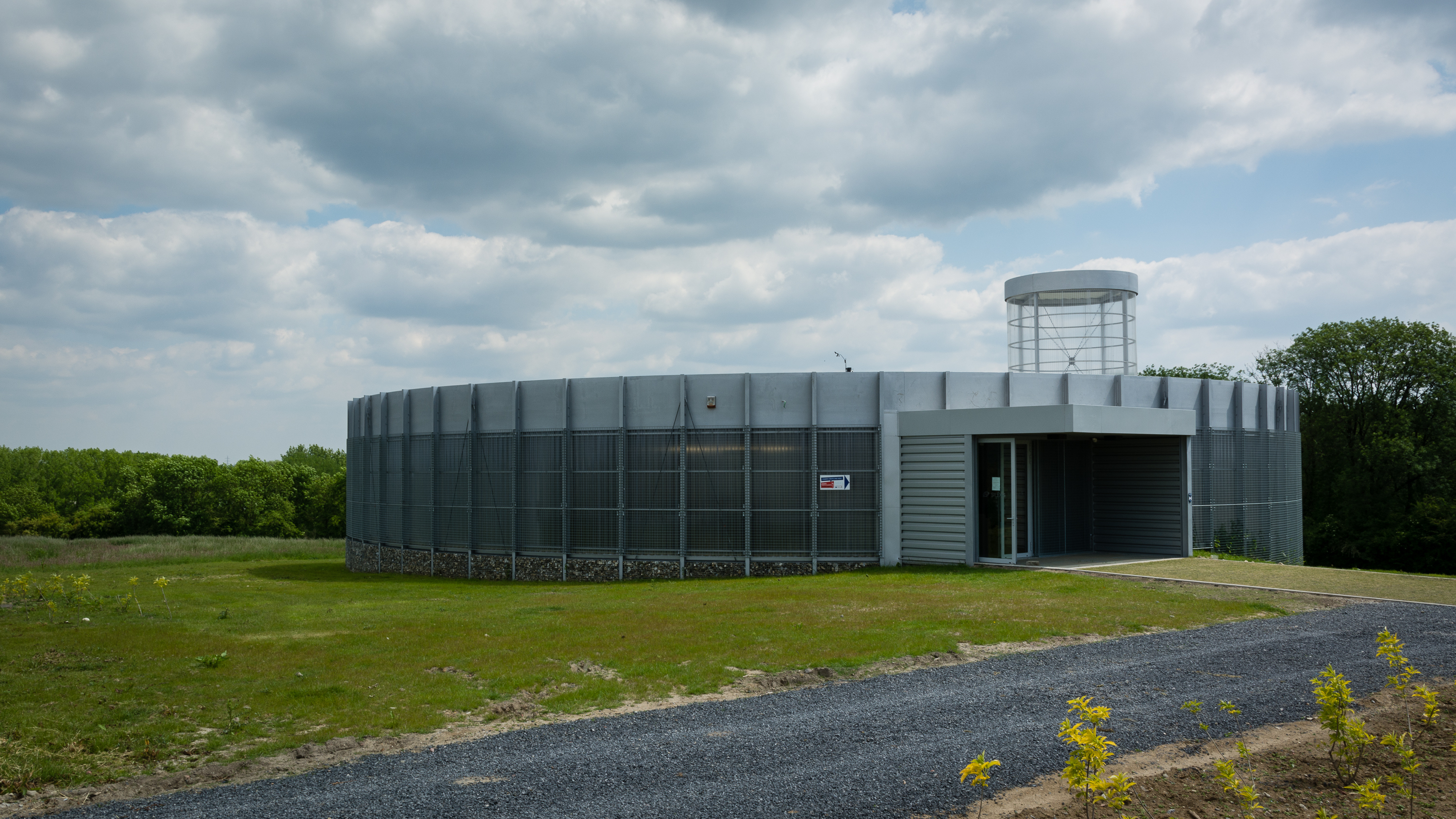 Neolithic Flint Mines at Spiennes